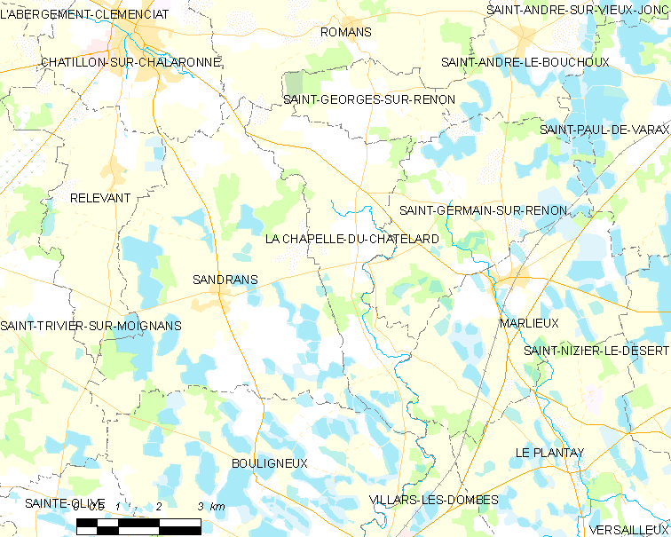 Map of French commune: La Chapelle-du-Châtelard Map commune FR insee code 01085.png